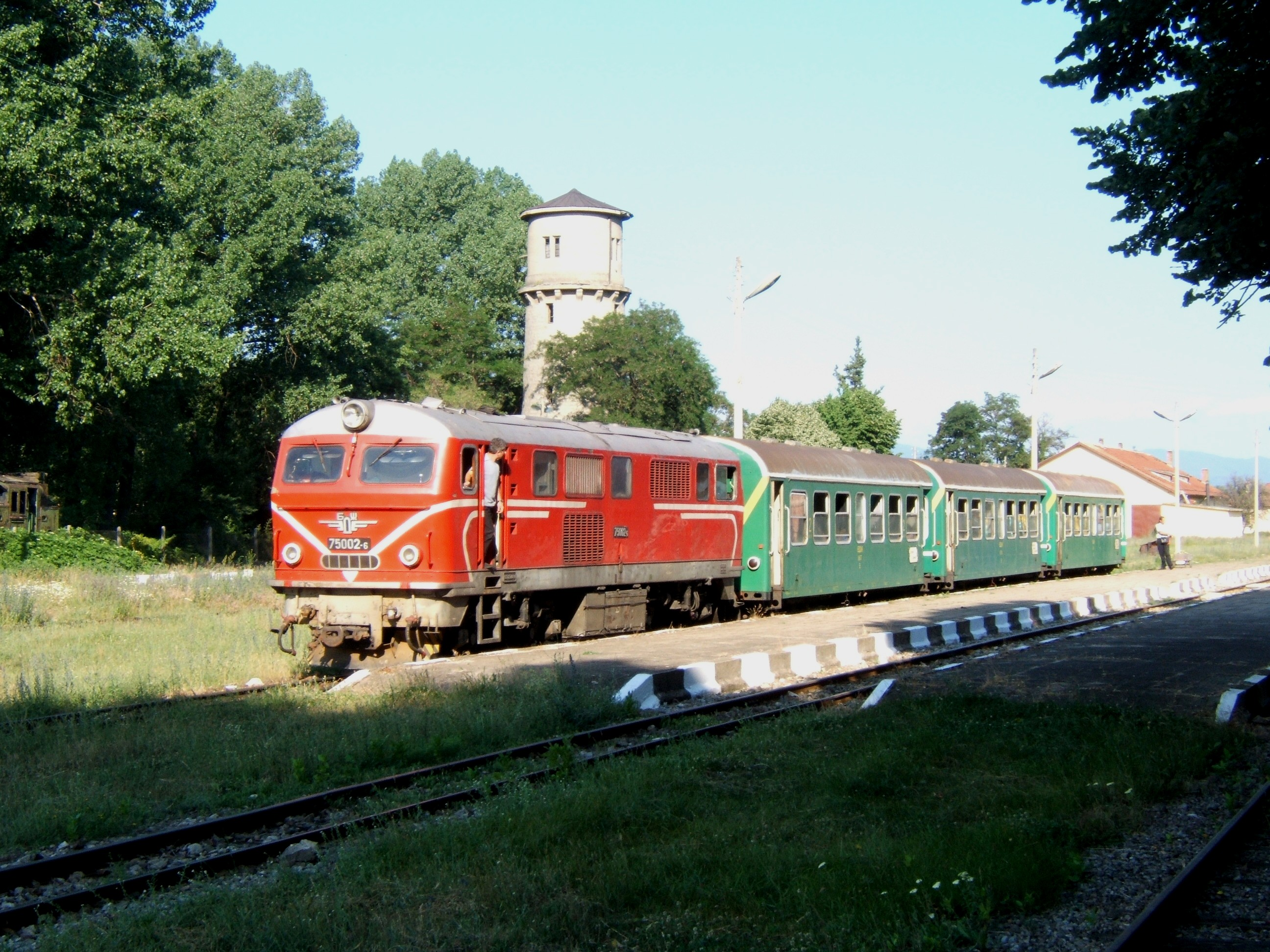 Train at Bansko station.